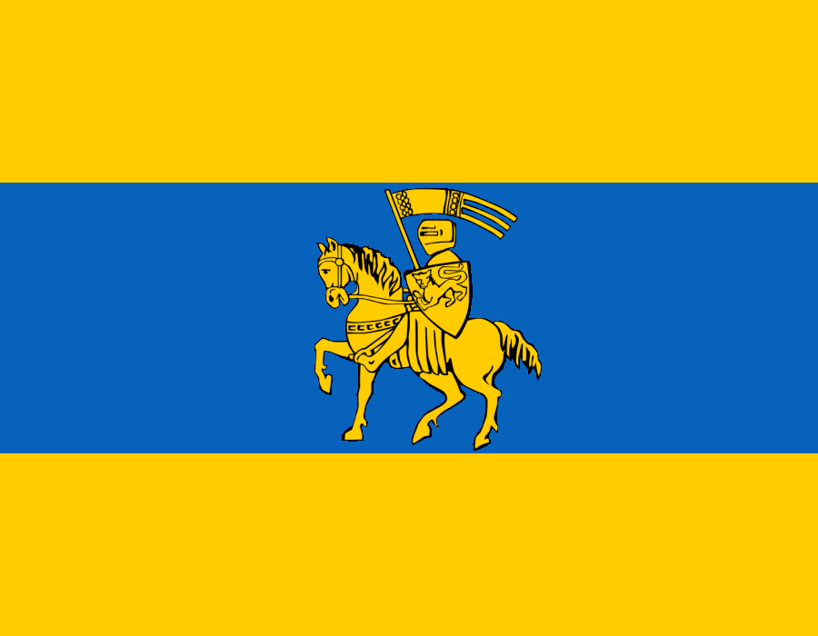 flag of the city of Schwerin